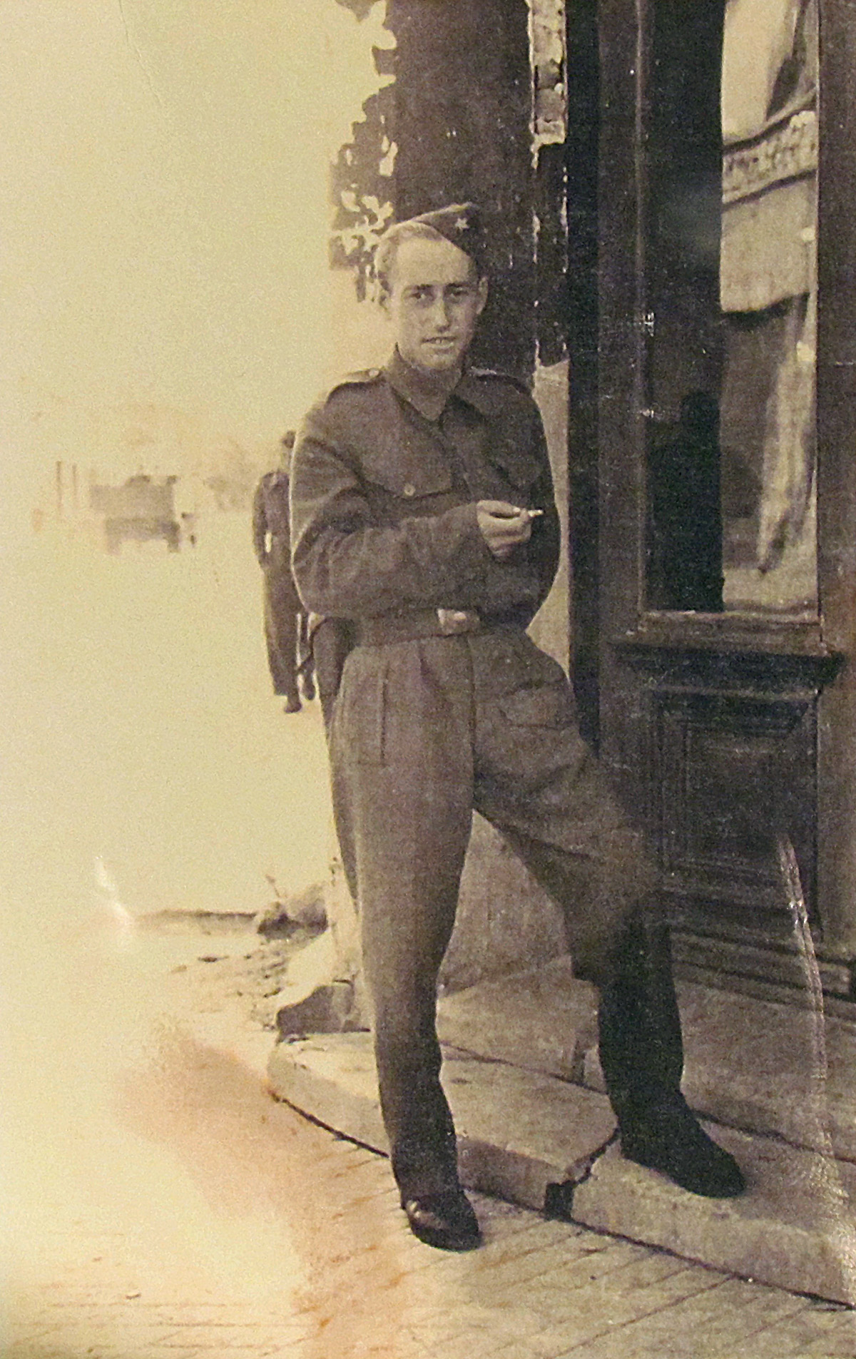 Milan Srdoč, 1944